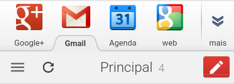 Gmail Simbols And their versions (2017)